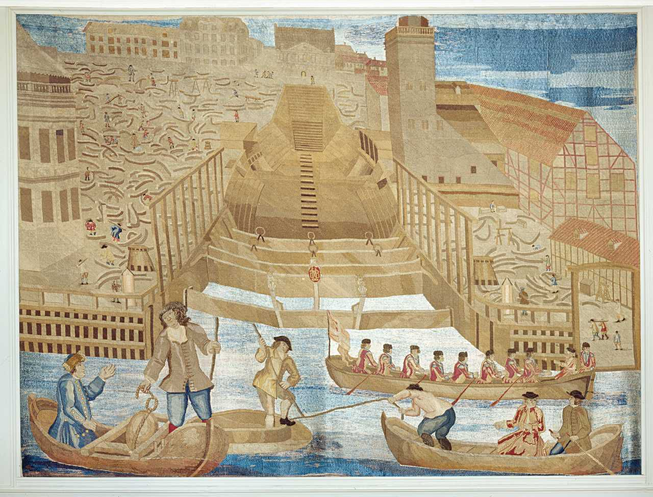 Tapestry in Skjoldnæsholm, Denmark